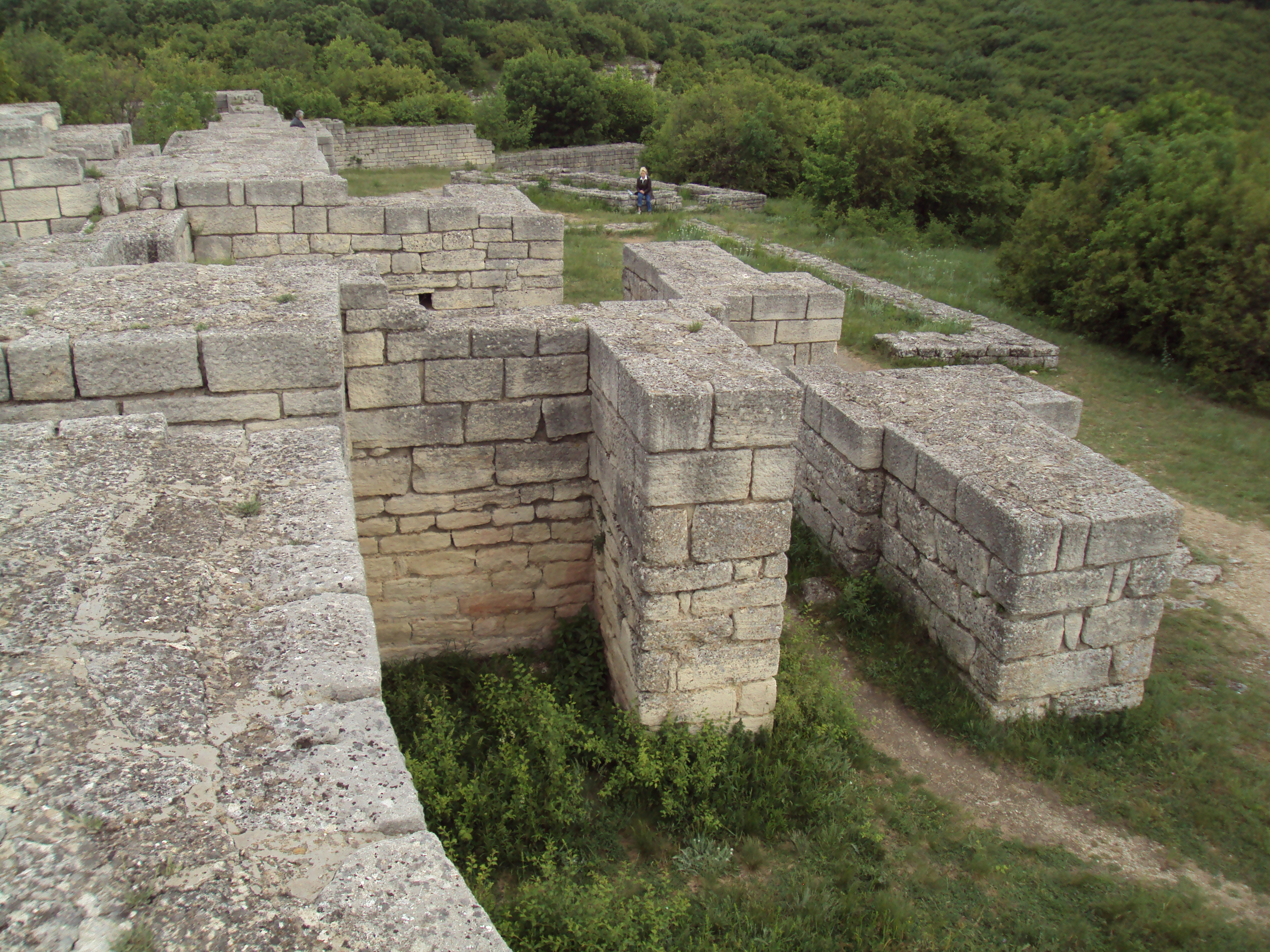 Madara